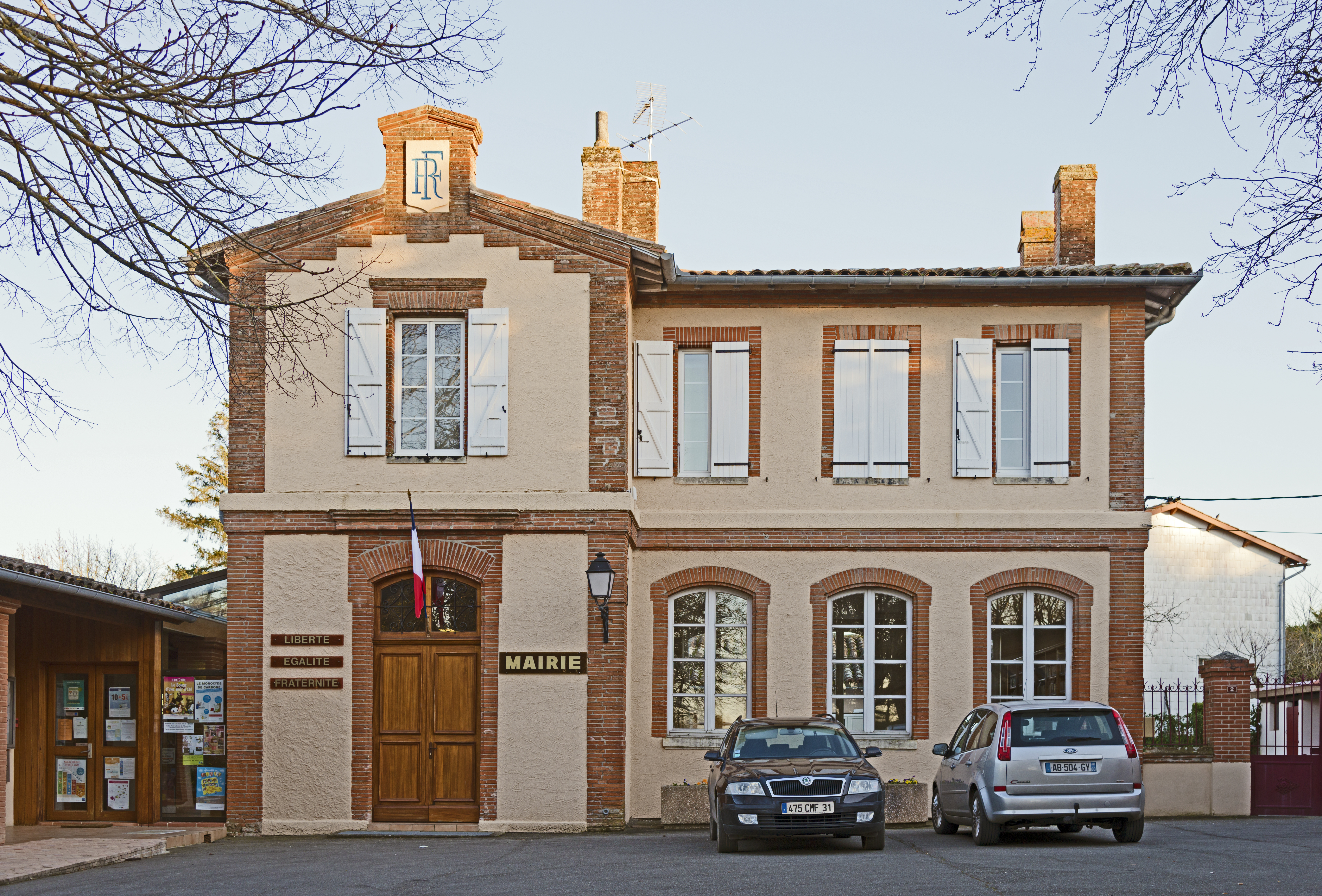 Saint-Marcel-Paulel, Haute-Garonne, France. Facade of Town hall.